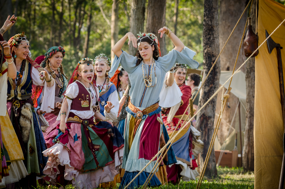 Dancers of the Shuvani Romani Kumpania at the Abbey Medieval Tournament 2013.